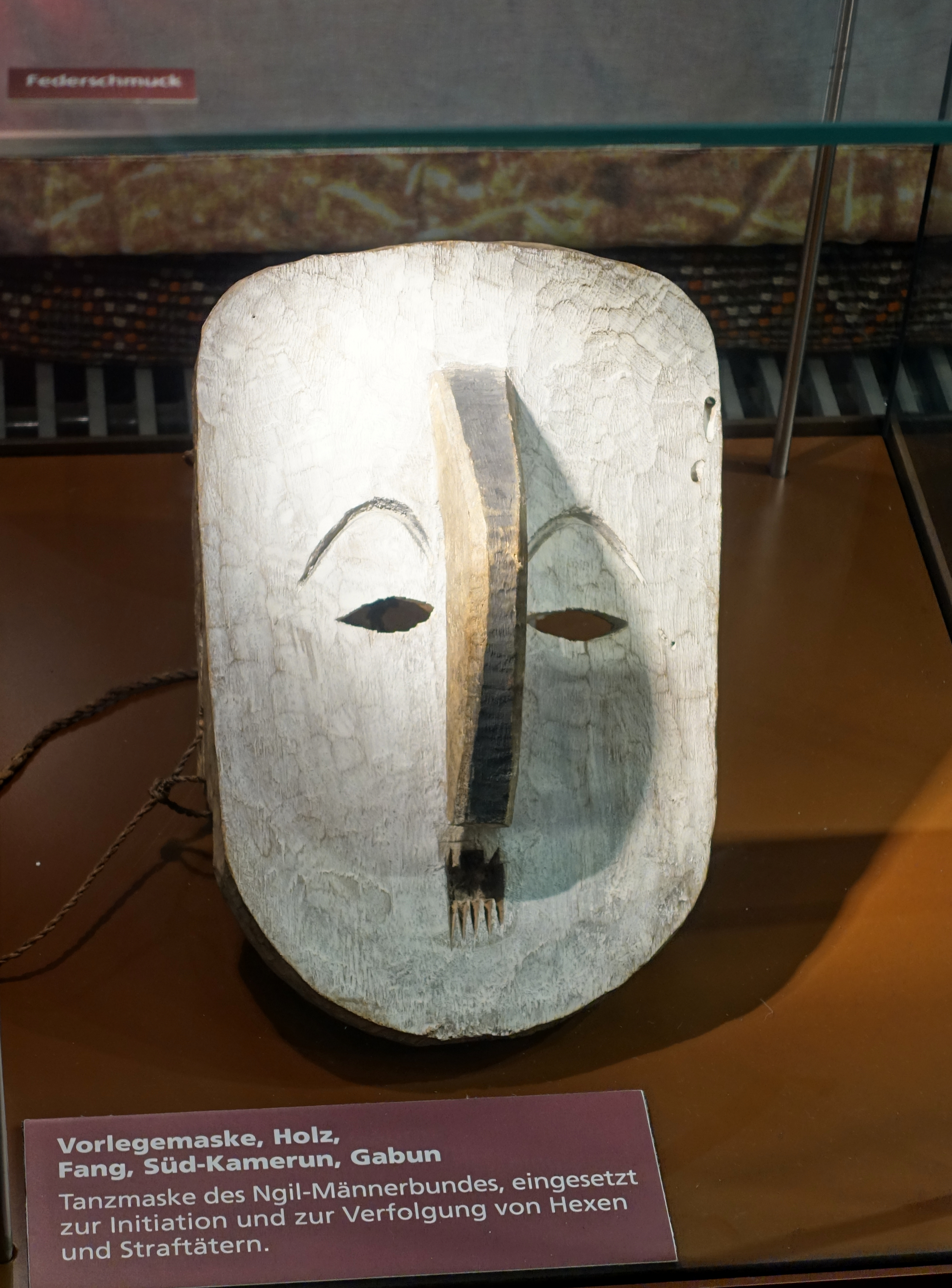 Exhibit in the Naturhistorisches Museum Nürnberg - Nuremberg, Germany.